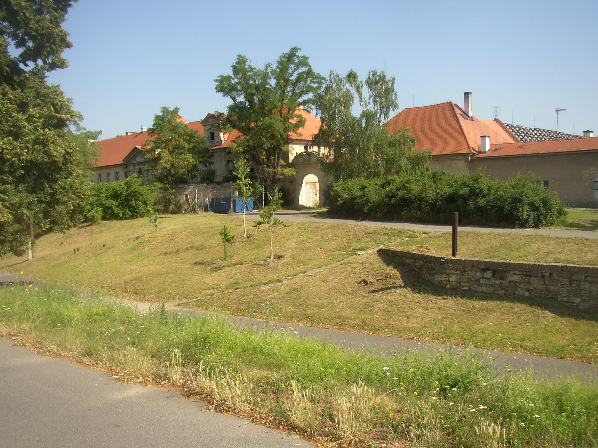 Hrdly Chateau, Litoměřice District. Used by Benedictines from Břevnov Monastery, the current buildings from 1746-47 by Kilian Ignaz Dientzenhofer, partially rebuilt after fire in 1824. A view from the south.